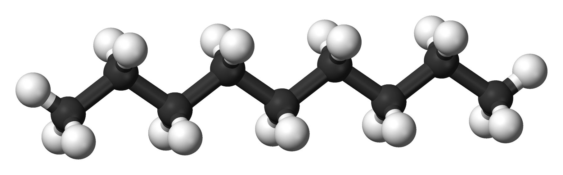 Ball and stick model of the nonane molecule.